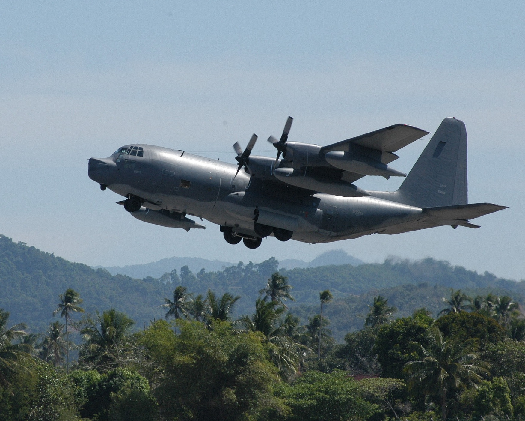 An MC-130P Combat Shadow takes off from Kadena Air Base, Japan, on a humanitarian effort in the wake of the Tsunami that struck South East Asia on December 26, 2004.